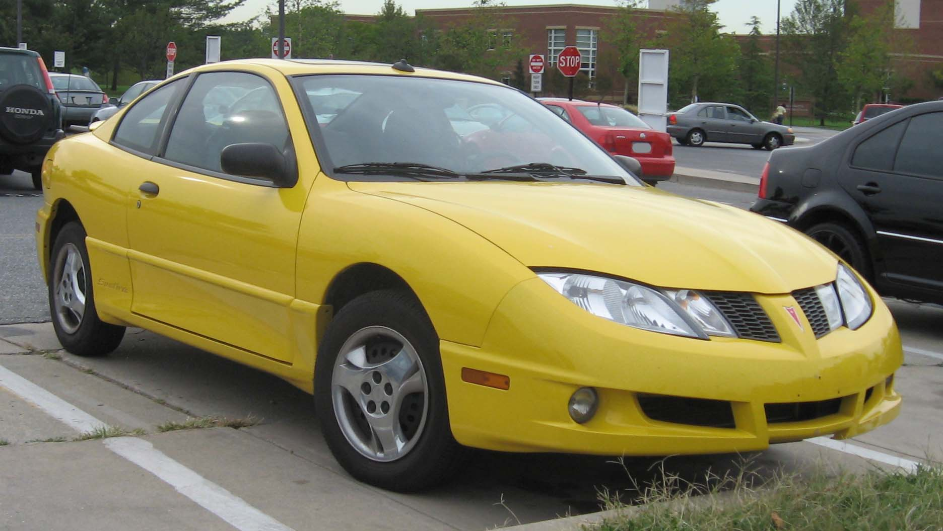 2003-2005 Pontiac Sunfire photographed in College Park, Maryland, USA.